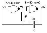 Astable multivibrator using gates